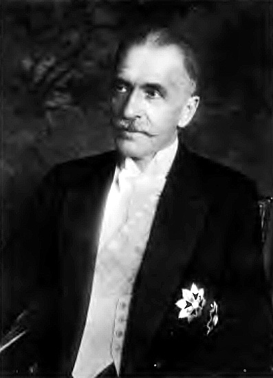 Ignacy Mościcki, president of Poland in interwar period.